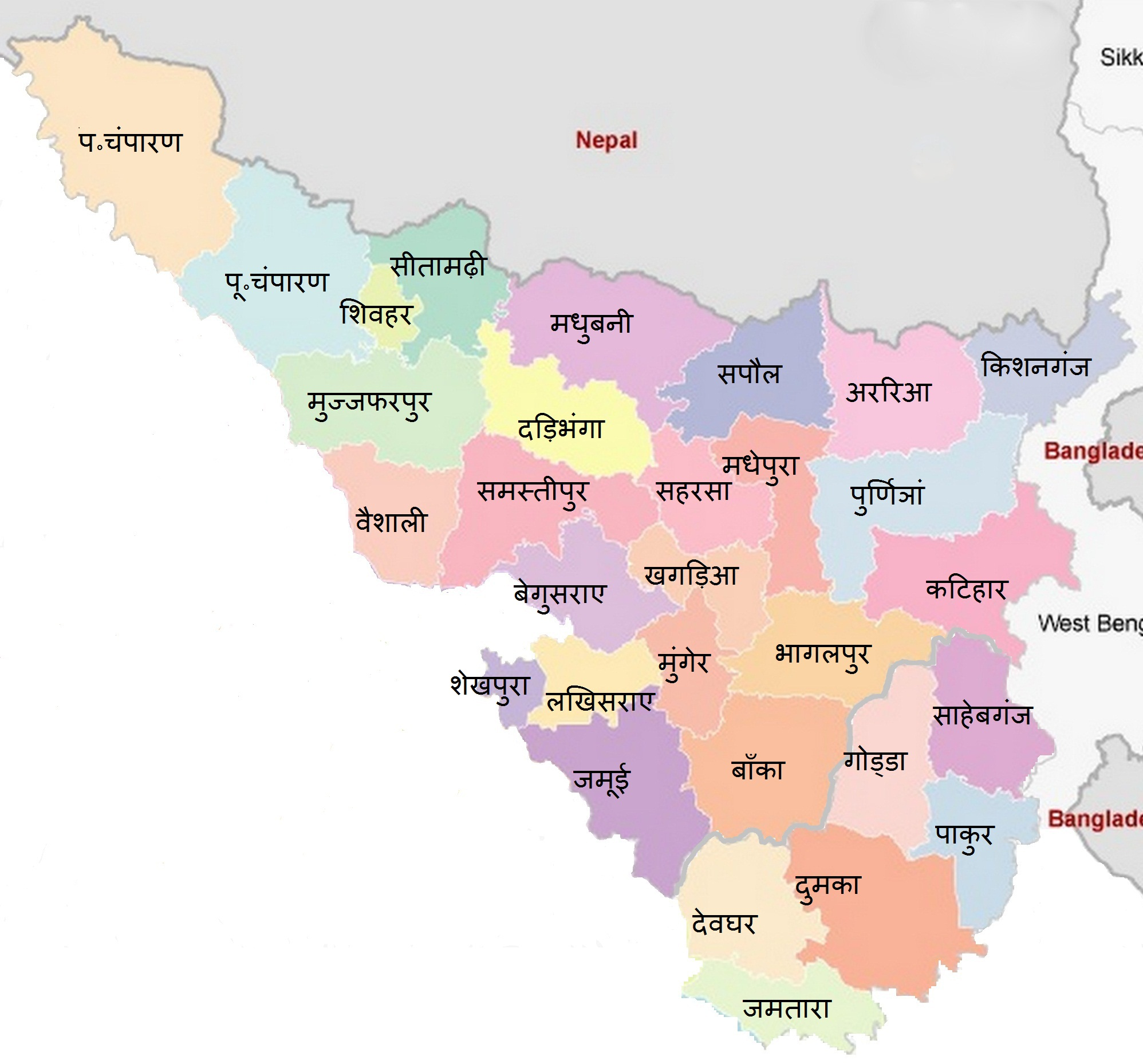 Map of Mithila with names in devanagri script